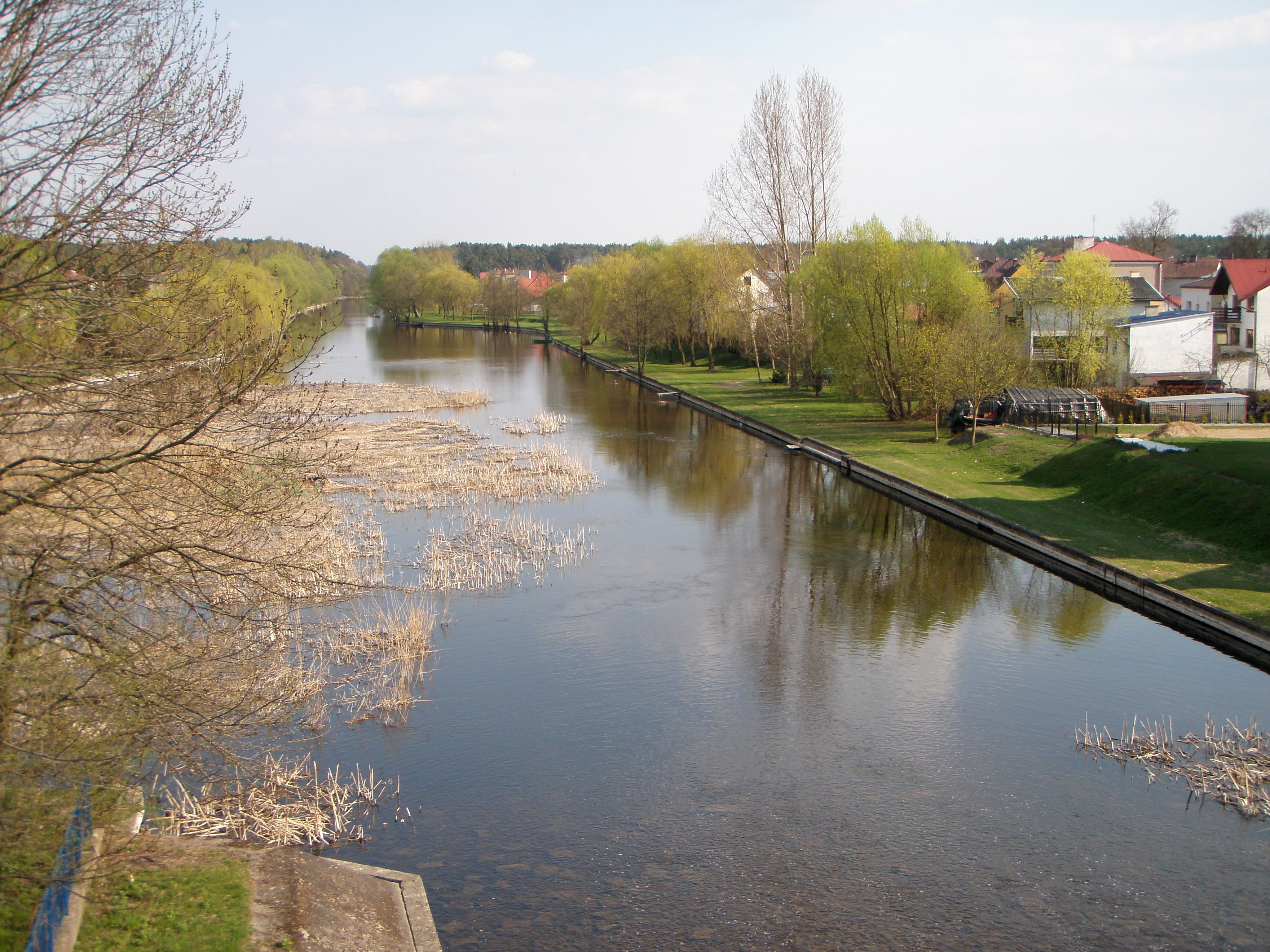 Bystry Canal in Augustów (Poland), view from 29 Listopada Str.